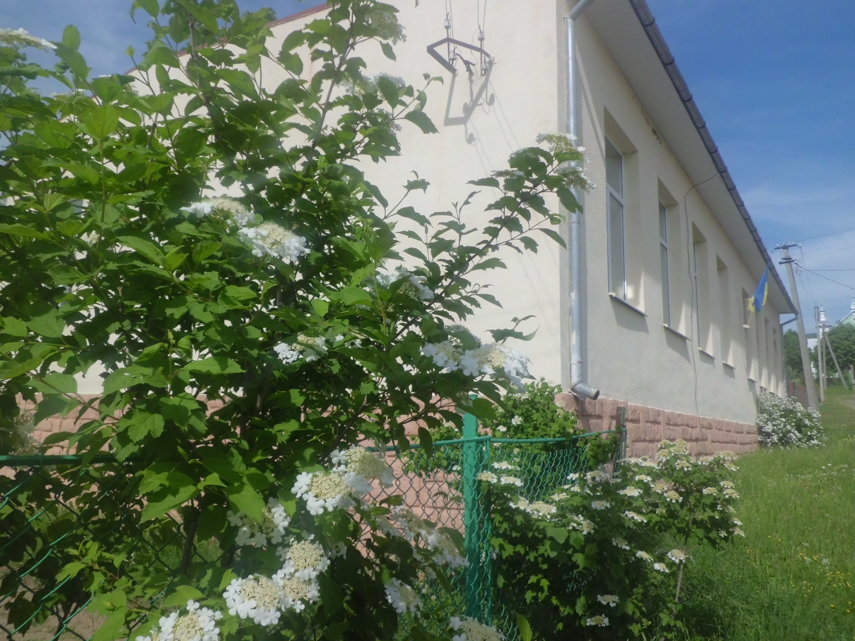 The view of the letsovytsa secondary school